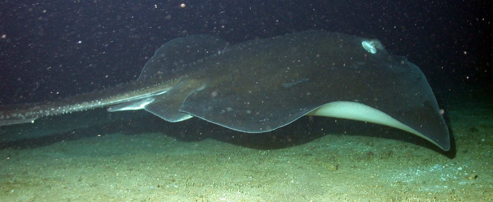 Roughtail stingray (Dasyatis centroura) at McGrail Bank, Gulf of Mexico